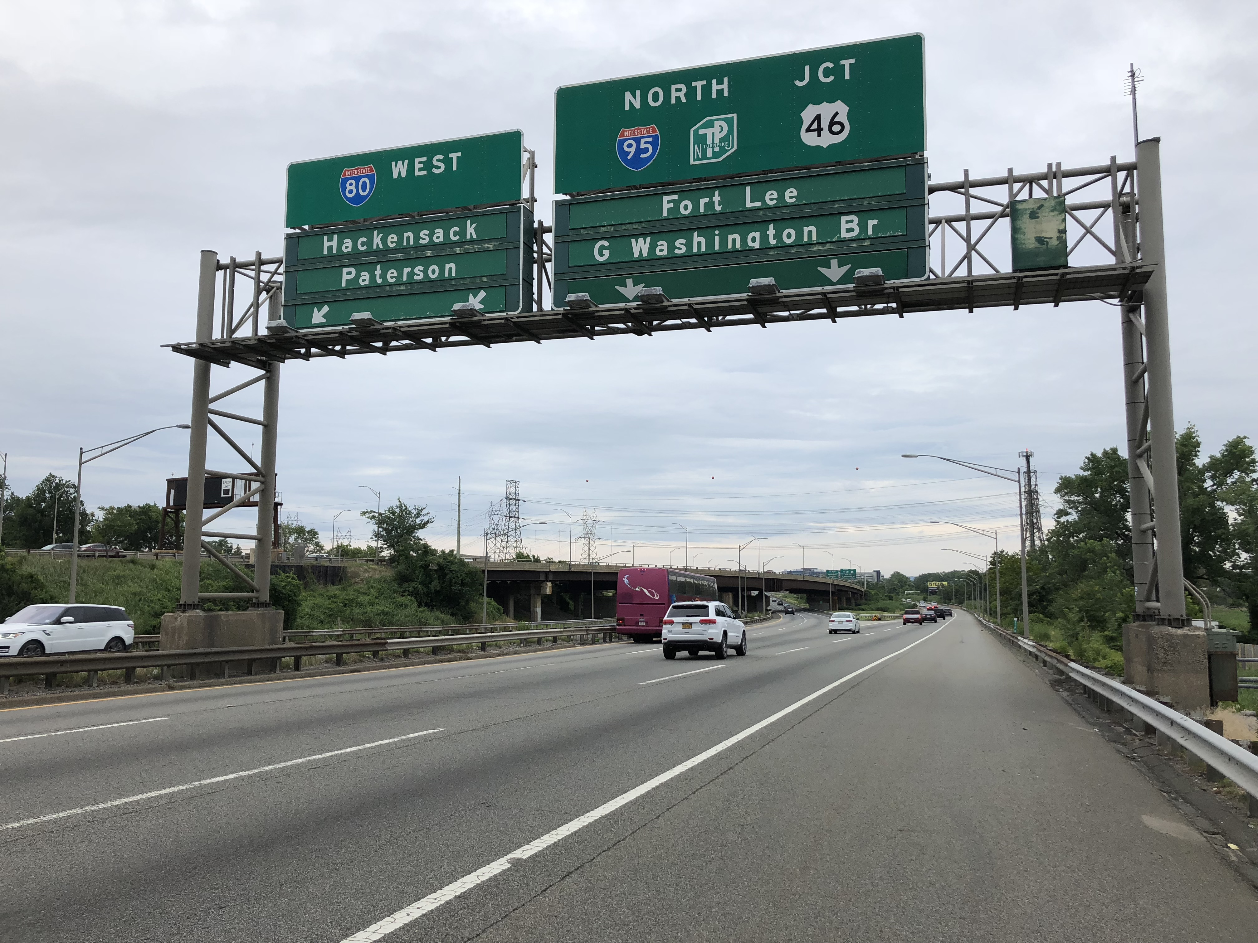 View north along Interstate 95 (New Jersey Turnpike Eastern Spur) at the exit for Interstate 80 WEST (Hackensack, Paterson) in Ridgefield, Bergen County, New Jersey